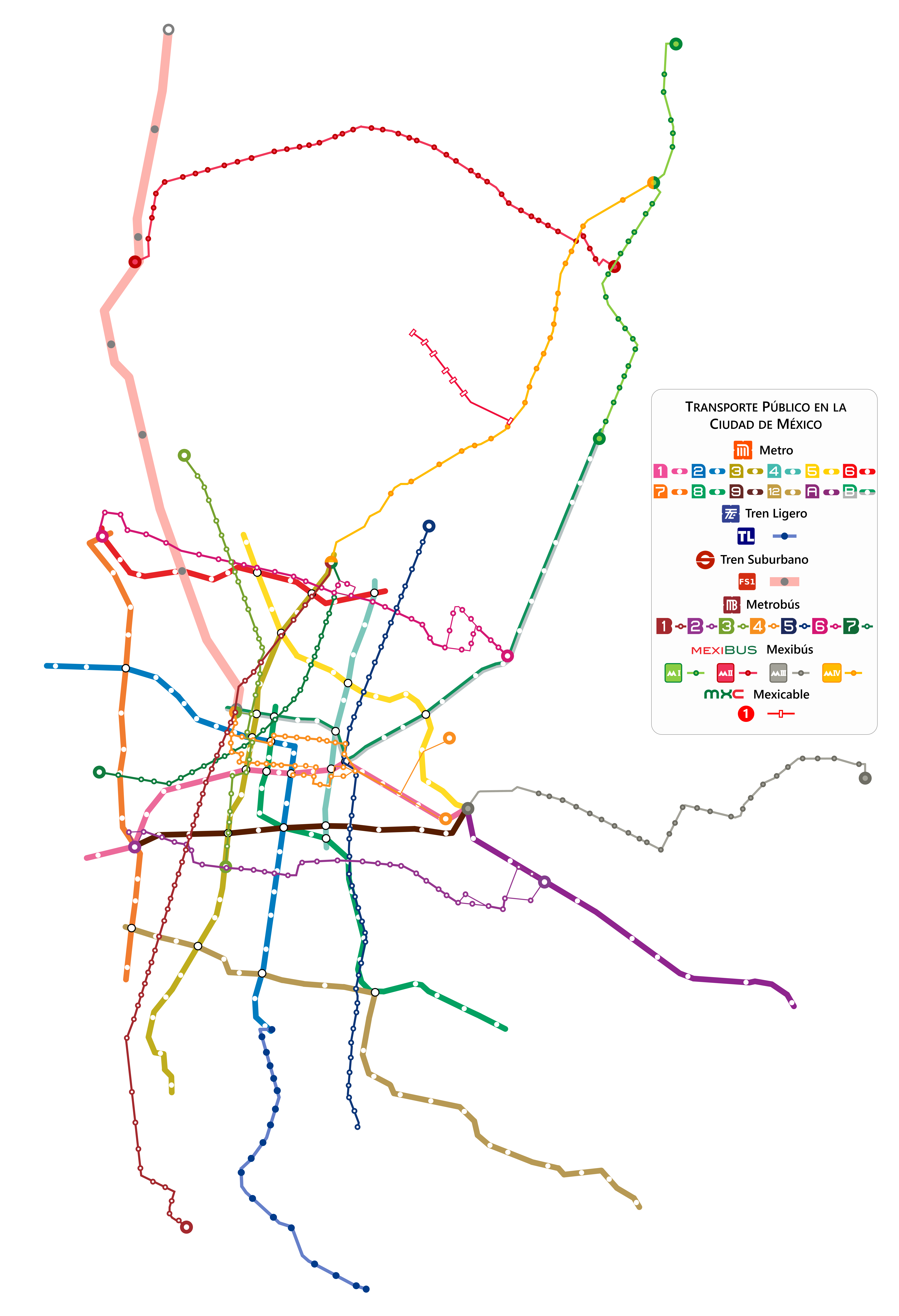 Map of the public transport systems in the Greater Mexico City